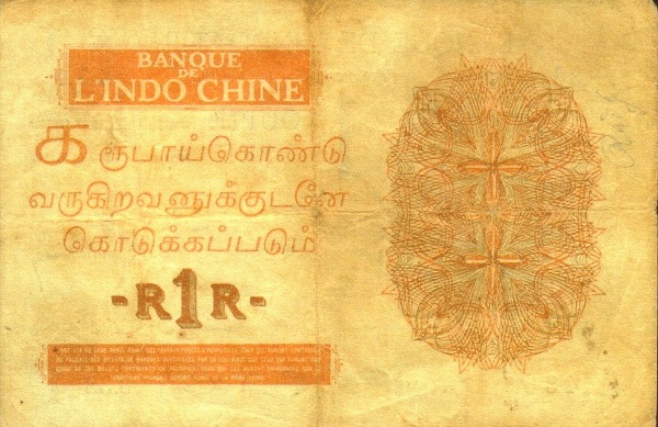 A banknote produced to circulate in French India by the Bank of Indo-China.